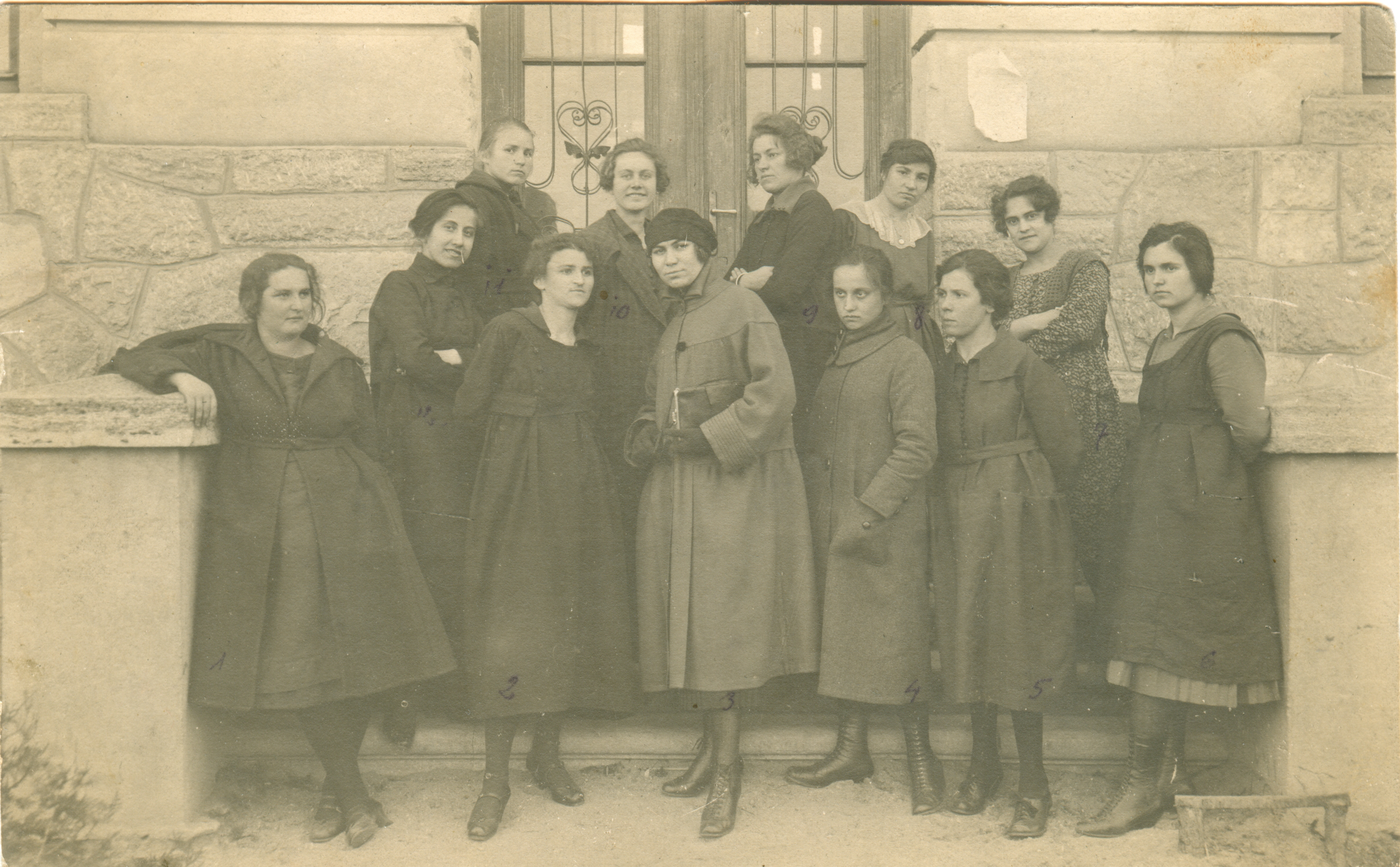 A group of students of the School for Teachers in Negotin in 1922. Srpski (latinica): Grupa učenica Učiteljske škole u Negotinu 1922.